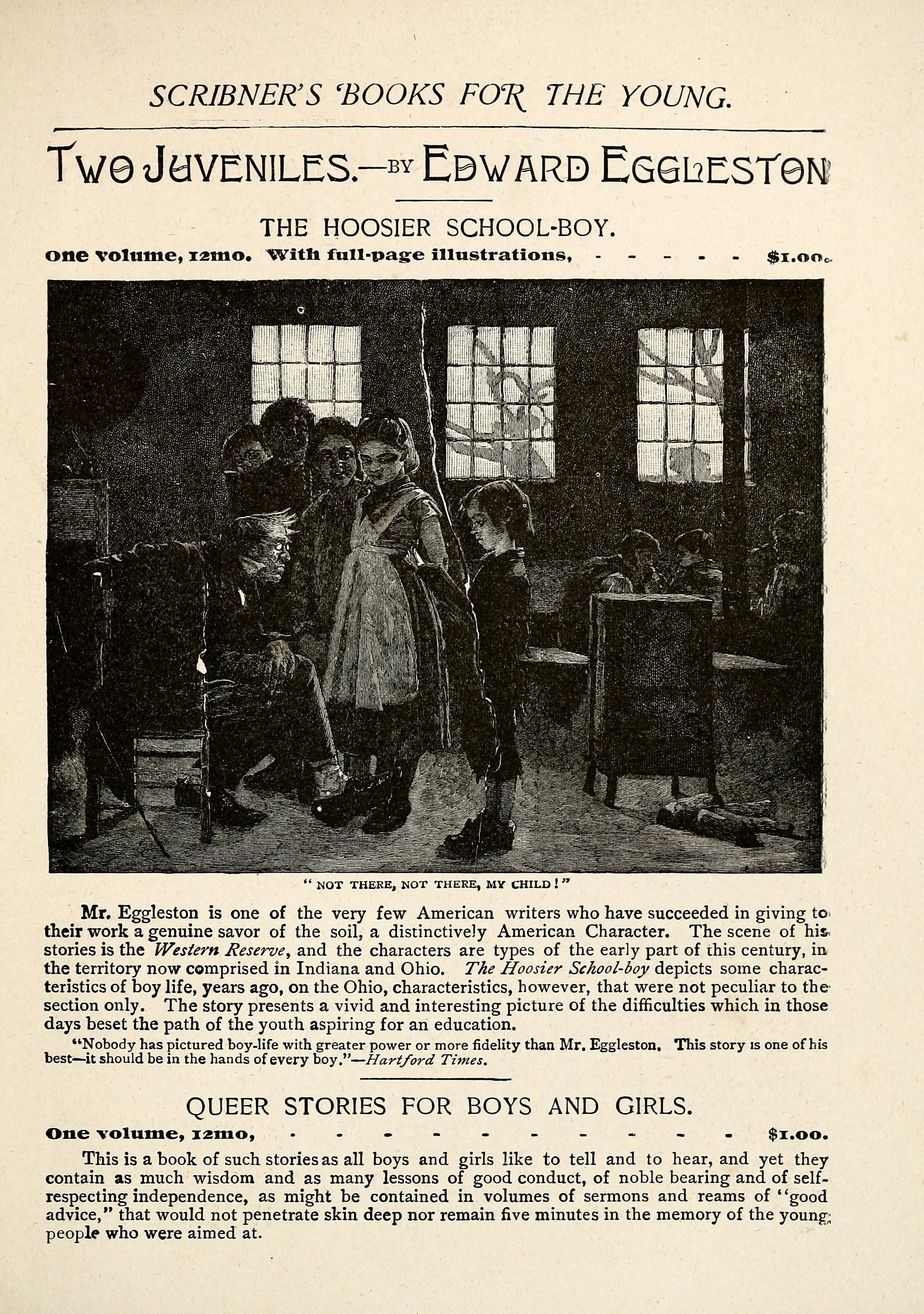 Two Juveniles by Edward Eggleston, 1888 advertisement Title: Sara Crewe; or, What happened at Miss Minchin's Year: 1888 (1880s) Authors: Burnett, Frances Hodgson, 1849-1924 Subjects: Publisher: New York C. Scribner's sons Text Appearing Before Image: SCRIBNERS BOOKS FOT( THE YOUNG. Twe JUVENILES-by EBVARD EGGI2EST0N THE HOOSIER SCHOOL-BOY. one volume, i2mo. Witli full-page illustrations. Jl.on, Text Appearing After Image: NOT THERE, NOT THERE, MY CHILD ! Mr. Eggleston is one of the very few American writers who have succeeded in giving totheir work a genuine savor of the soil, a distinctively American Character. The scene of hisstories is the Western Reserve, and the characters are types of the early part of this century, inthe territory now comprised in Indiana and Ohio. The Hoosier School-boy depicts some charac-teristics of boy life, years ago, on the Ohio, characteristics, however, that were not peculiar to thesection only. The story presents a vivid and interesting picture of the difficulties which in thosedays beset the path of the youth aspiring for an education. Nobody has pictured boy-life with greater power or more fidelity than Mr. Eggleston, This story is one of hisbest—it should be in the hands of every boy.—Hartford Times. QUEER STORIES FOR BOYS AND GIRLS. One volume, iamo, ...-..____ $1.00. This is a book of such stories as all boys and girls like to tell and to hear, and yet theycon